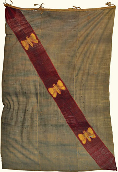 Original copy of the flag of the Principality of Elba under Napoleon. Sold at Sotheby's for $85,000 in 2008.